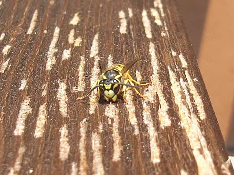 A wasp gnaws on a brown painted wooden board.